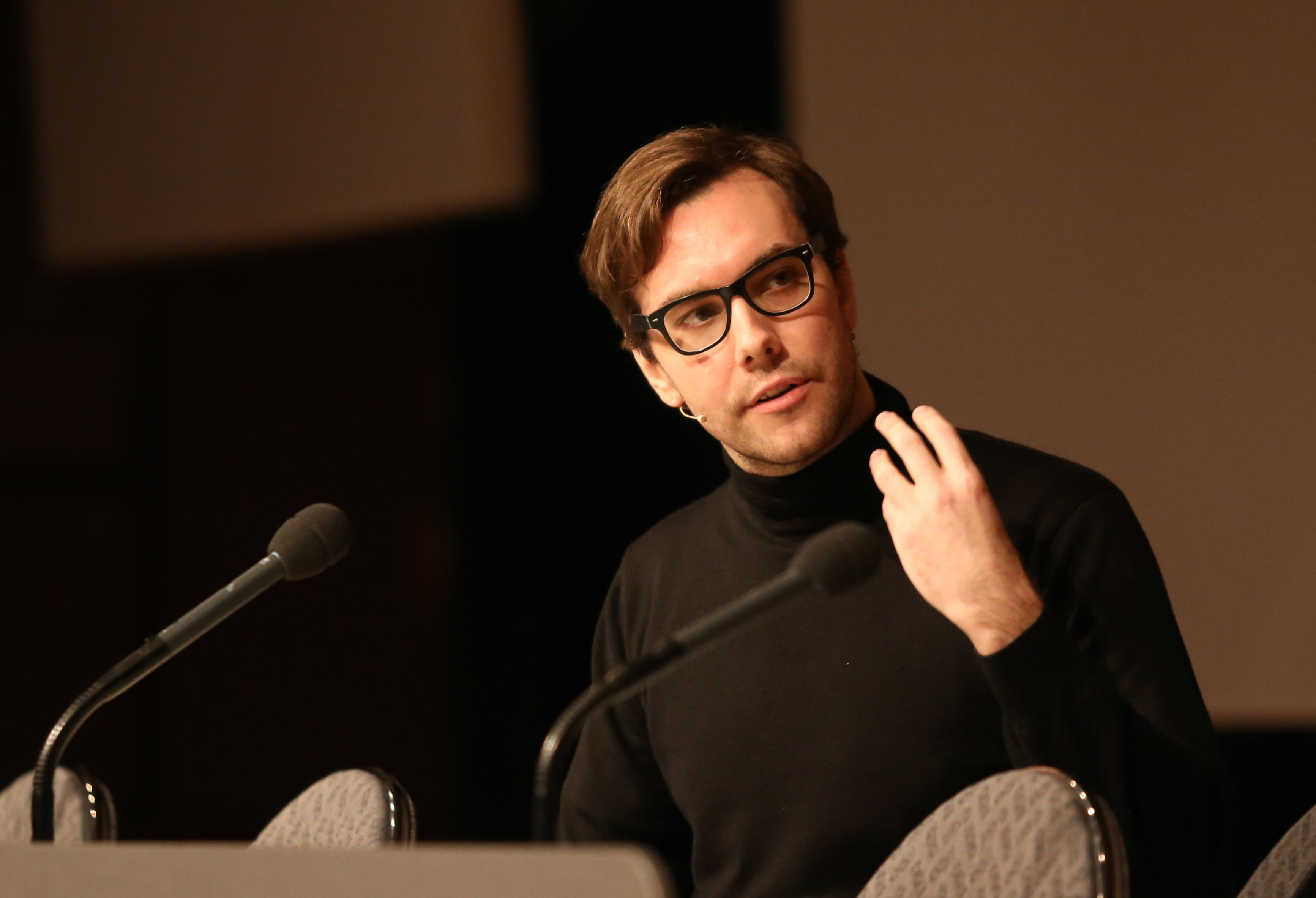 Jacob Appelbaum at the 30th Chaos Communication Congress in a session with Julian Assange and Sarah Harrison